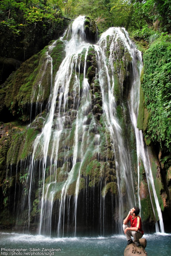 Kaboud Val Waterfall, Aliabad Katul, Golestan Province of Iran.